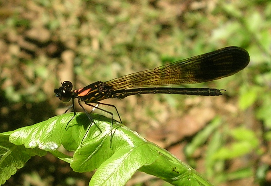 Rhinocypha bisignata (Stream ruby) from Wynaad